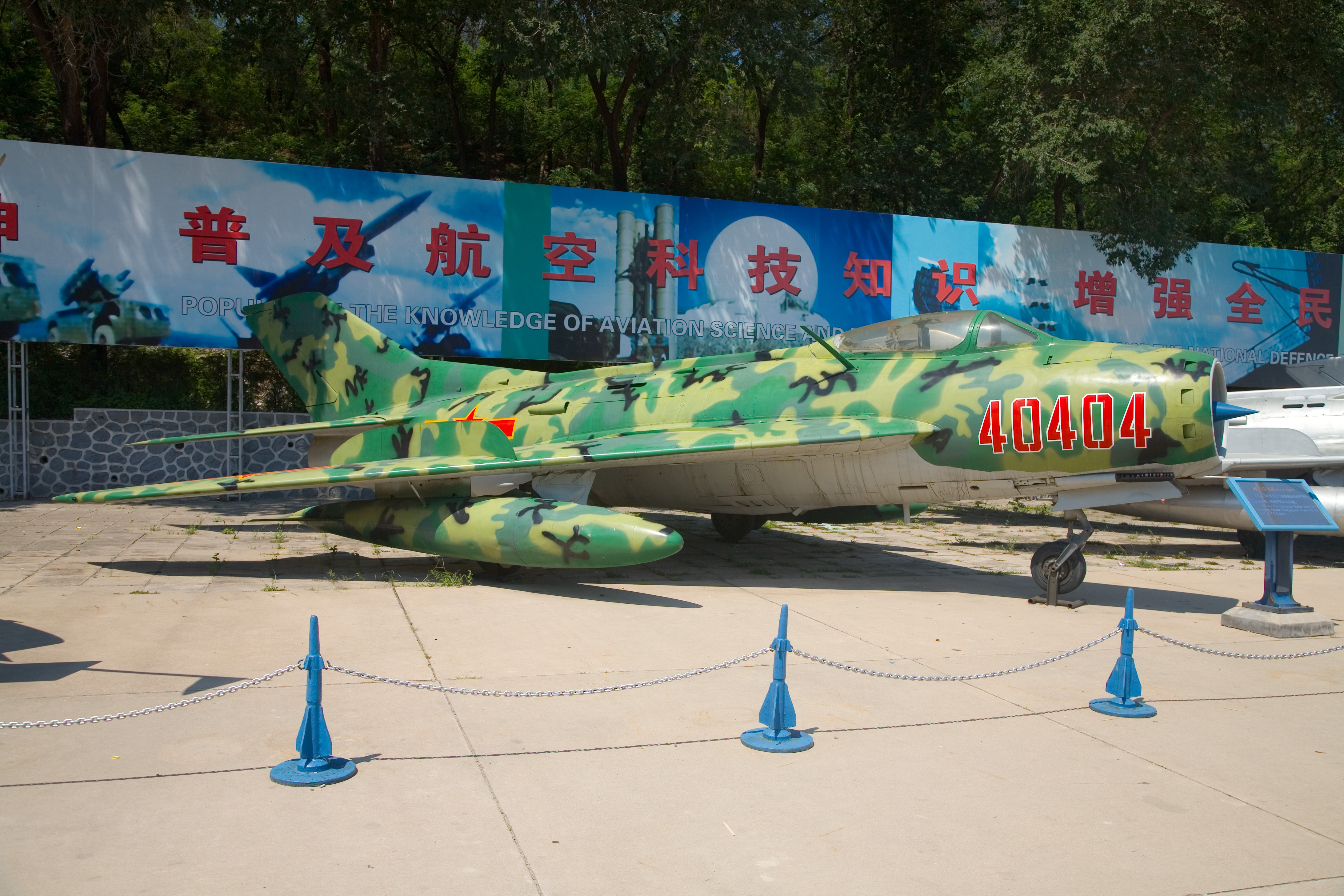 F-6II fighter at the China Aviation Museum